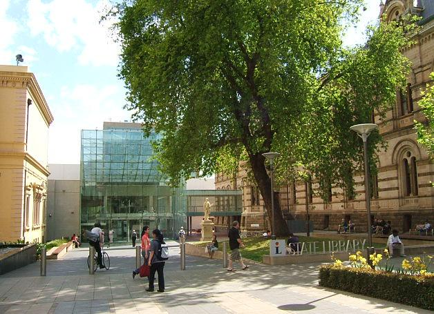 State Library of South Australia, Adelaide, South Australia